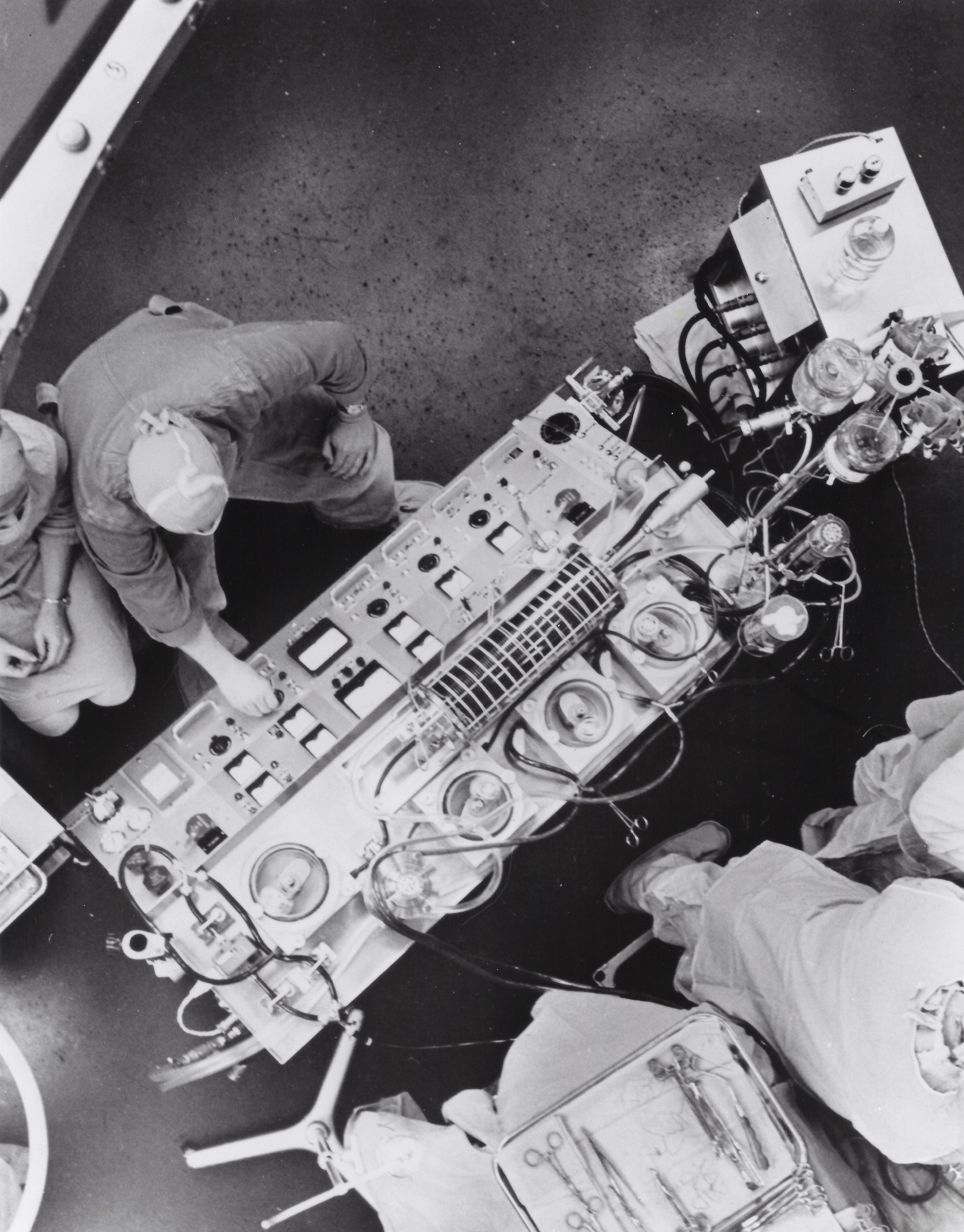 Advances in surgery, especially in the field of cardiovascular surgery beginning in the 1960’s, made the modern operating room the nexus of the modern hospital. In the years prior to passage of the 1976 Medical Device Amendments there was no field of biomedical engineering, but FDA began surveying the medical device field to identify potential and emerging problems with intraocular lenses, replacement heart valves, and many different kinds of operating room equipment. For more information on FDA History, please visit